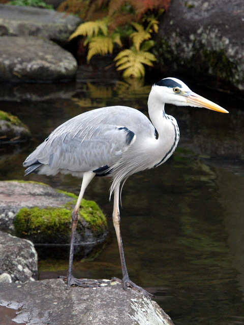 At Hakone, Kanagawa Pref., Japan, on 22nd Dec., 2012